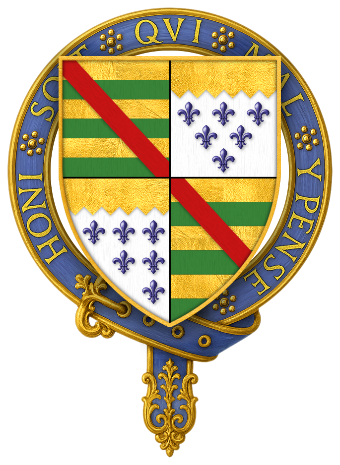 Coat of arms of Sir Edward Poynings, KG. Poynings quartering Paston.